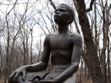 Photo by Matthew A. Lynn